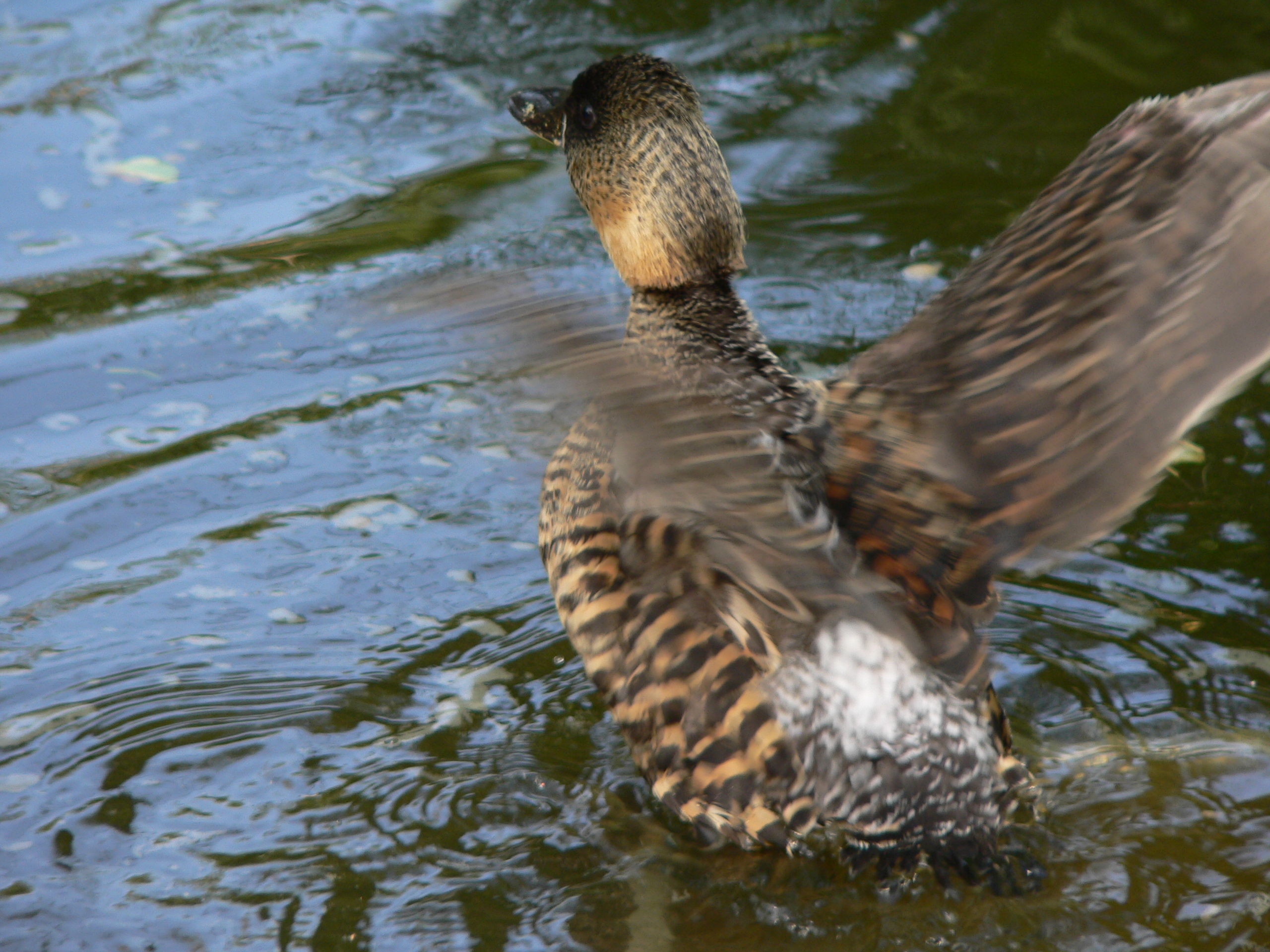 Thalassornis